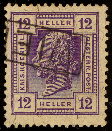 Austrian KK 12 heller stamp, issue 1906, rare Telegraph cancellation from Wien, Klein type 1154.